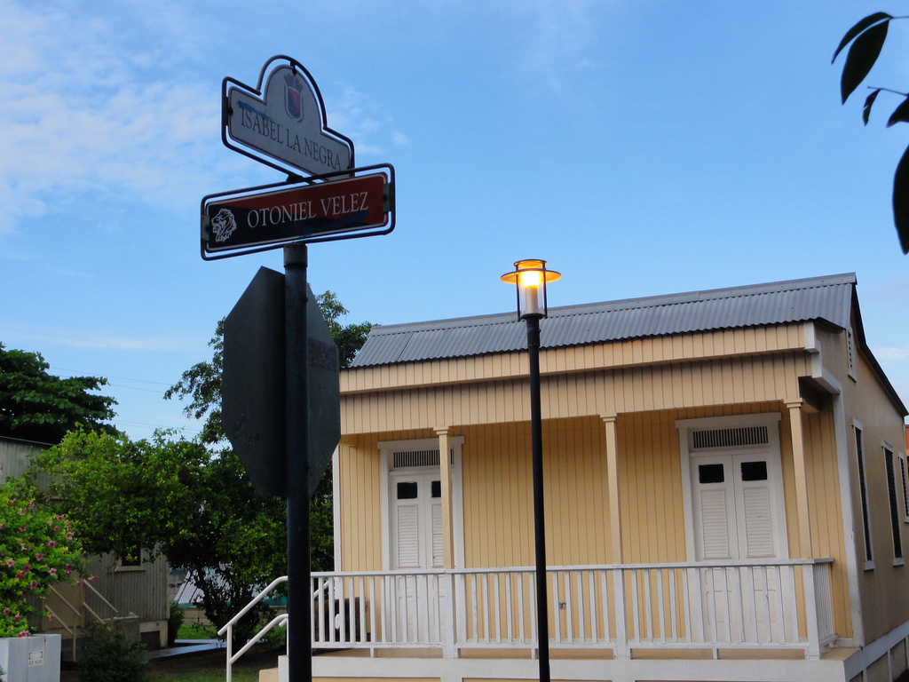 Sign marking Isabel la Negra Street in Barrio San Antón in Ponce, PR